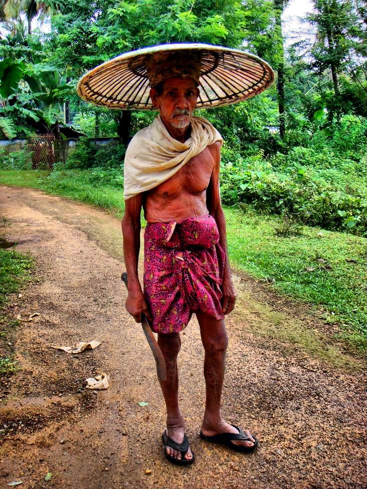 A farmer with a head cap from kerala